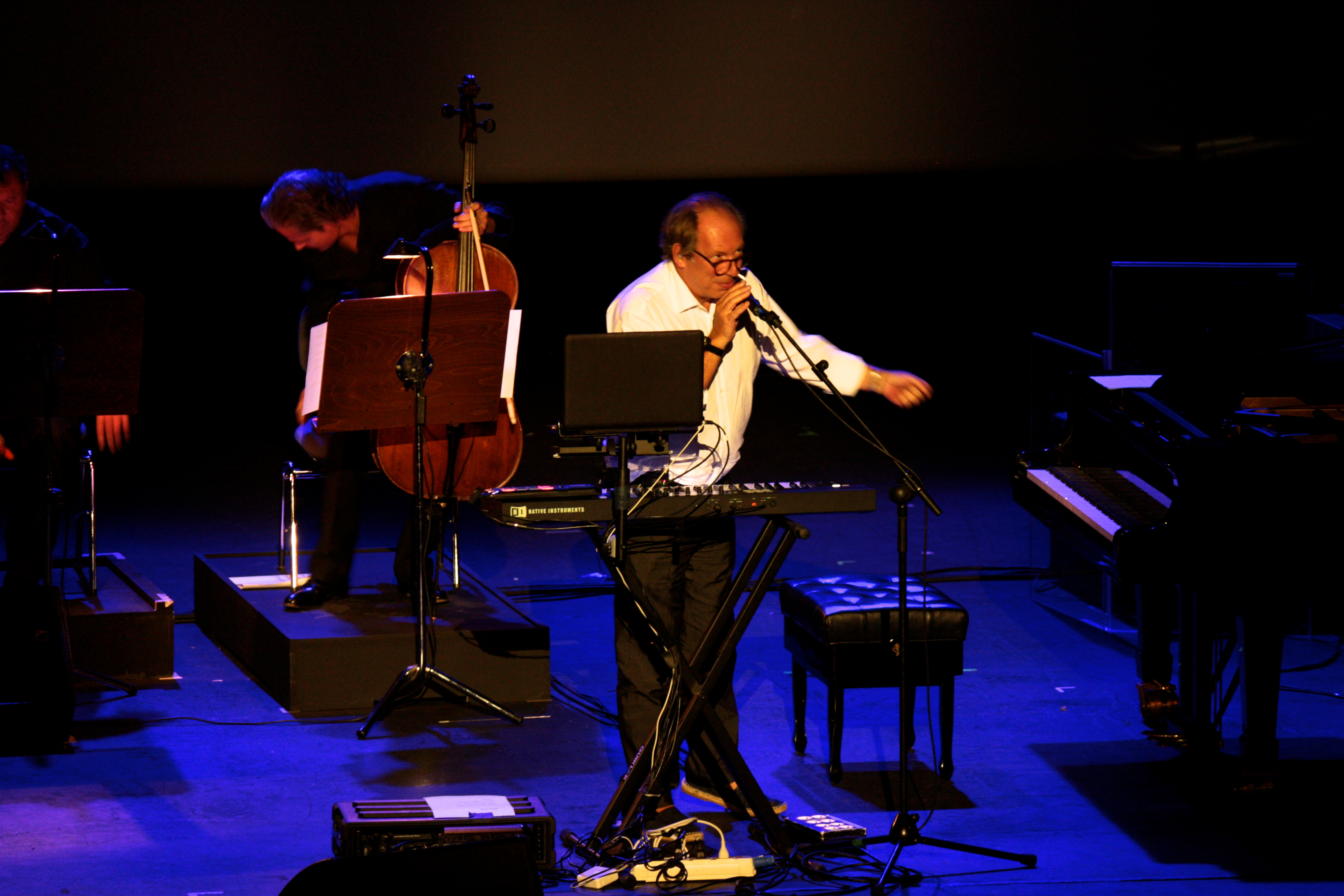 Starmus 2016. Tenerife, Canary Islands.